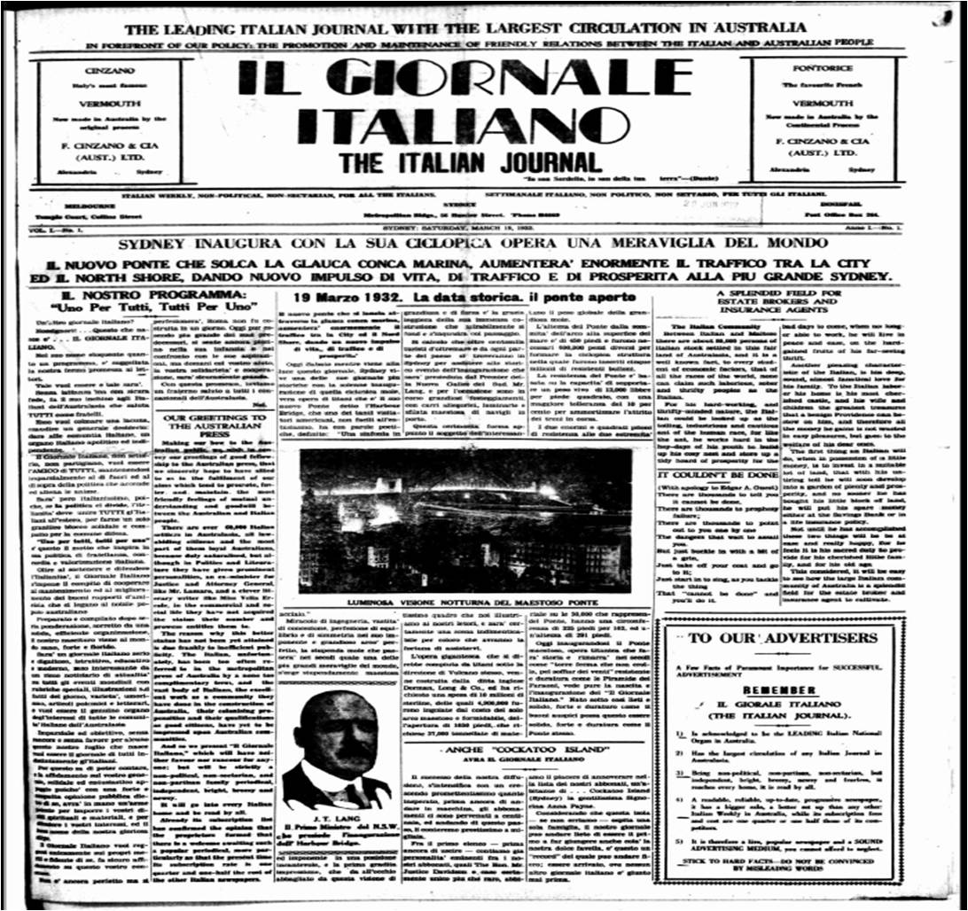 Coverpage of a historic newspaper from New South Wales, Australia.